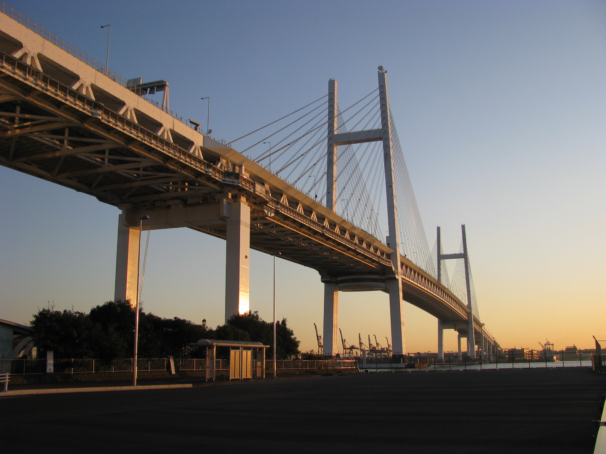 Yokohama Bay Bridge in Yokohama, Kanagawa, Japan.